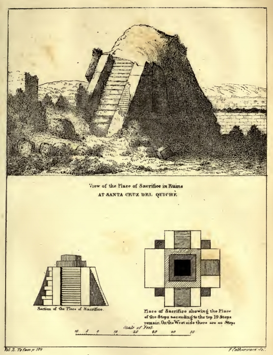 Remains of the Tohil Temple in the ruins of Q'umarkaj (Utatlán), Santa Cruz del Quiché, Guatemala. Engraving made by Frederick Catherwood during his visit to the site in 1840.